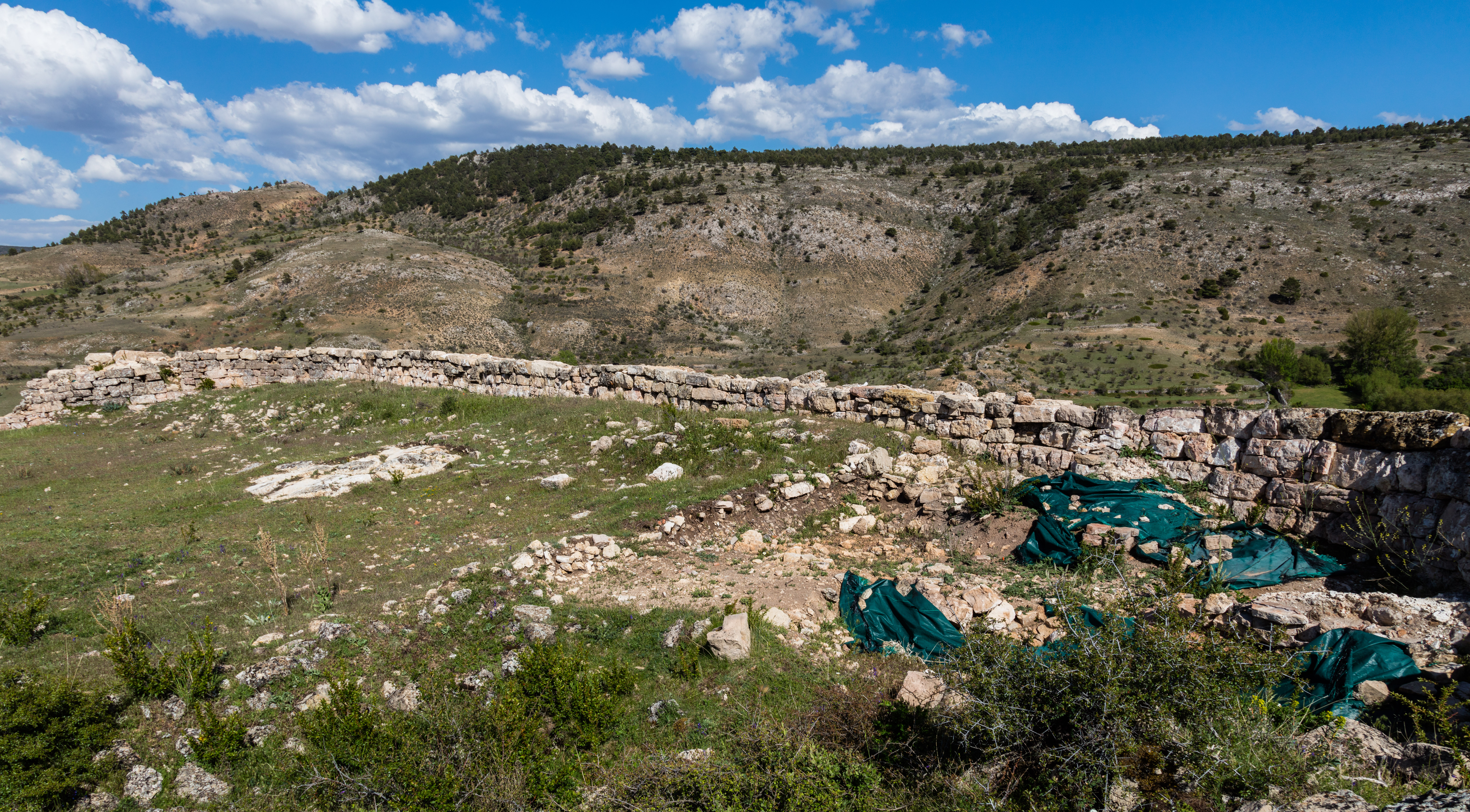 Castil de Griegos, Checa, Guadalajara, Spain